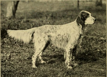 English setter - Ch Mallwyd Sirdar, described as of a Laverack type